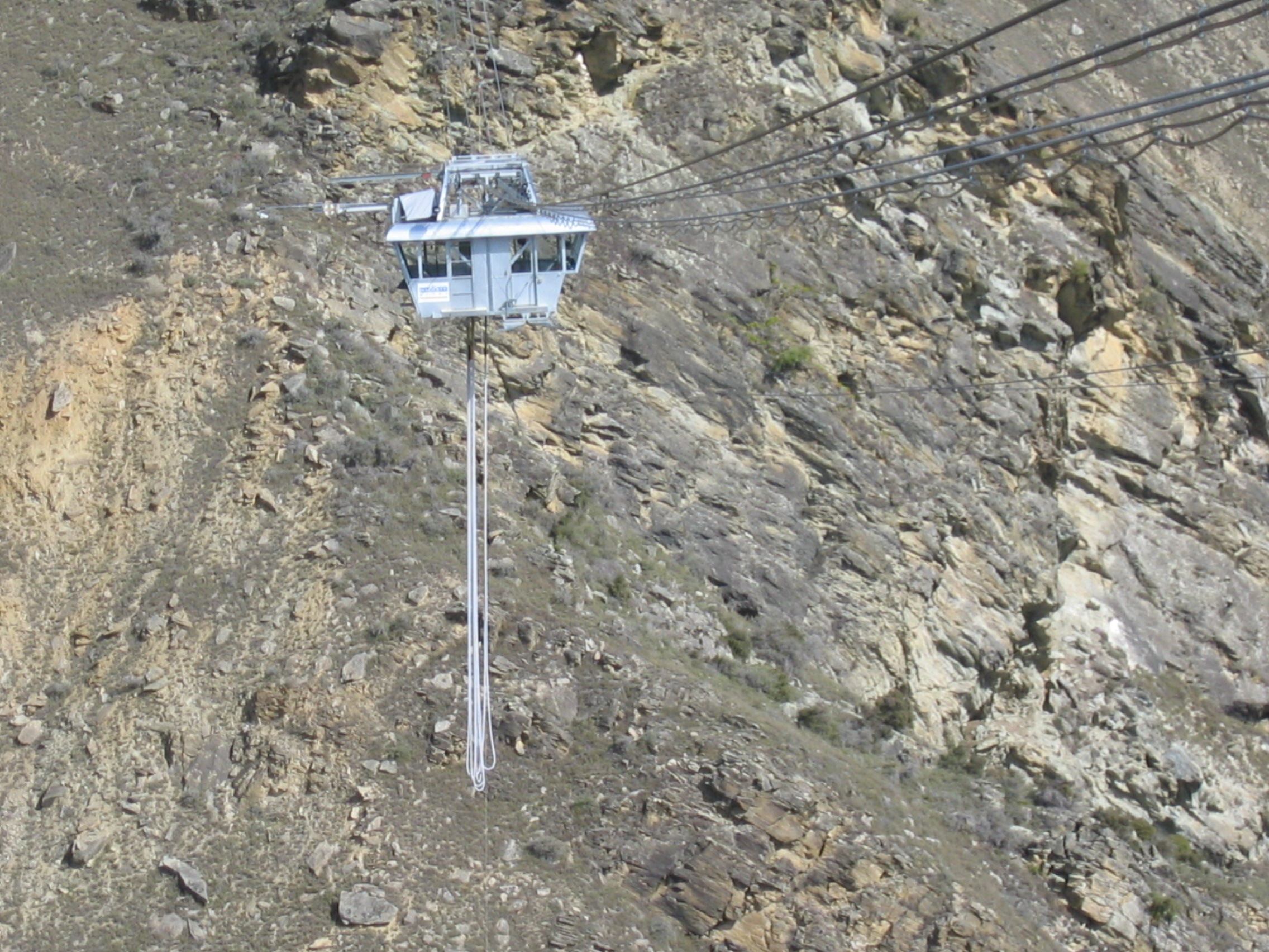 Nevis Bungee Platform located near Queenstown, New Zealand